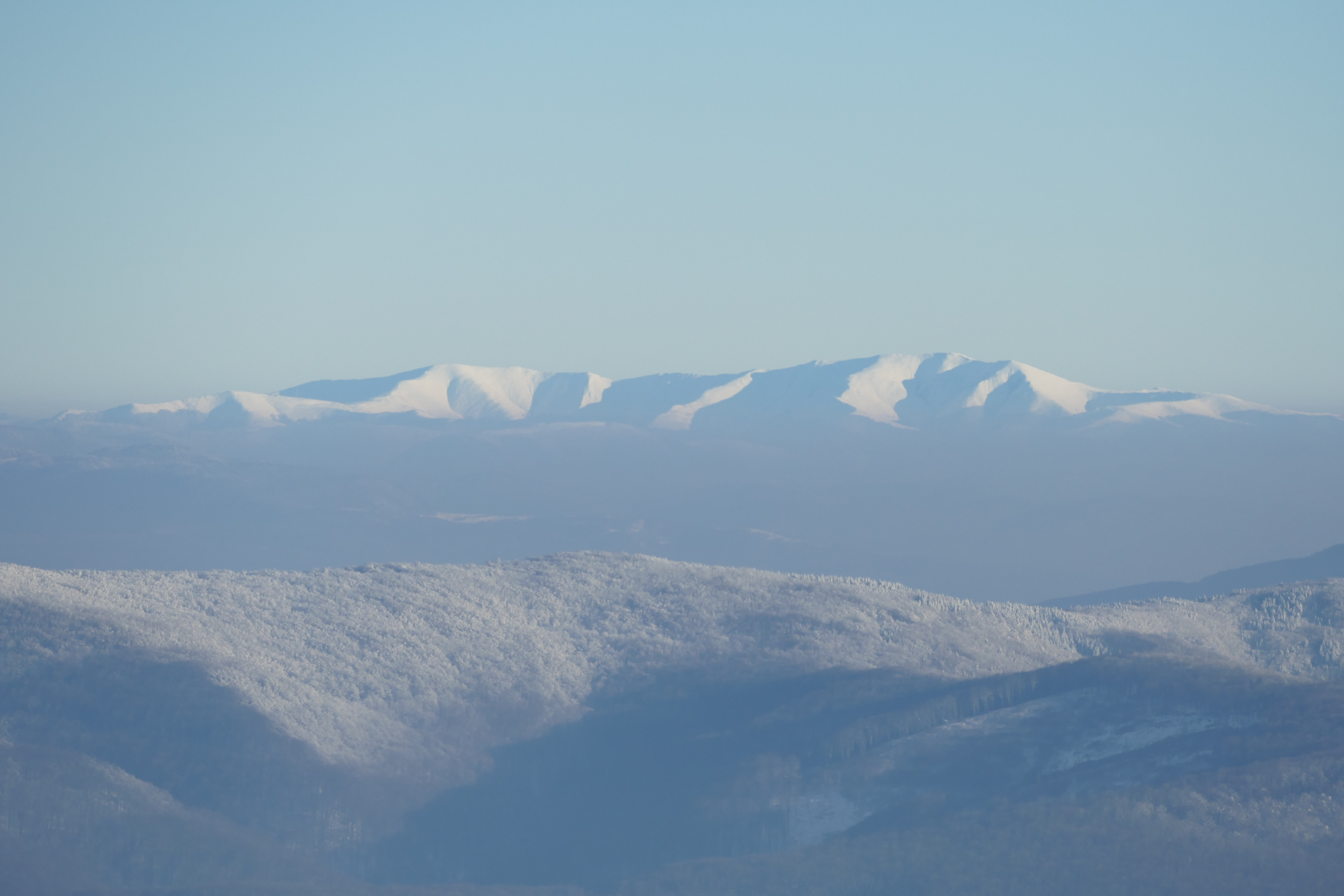 View of the Ukrainian Polonina Boržava from the eastern peak of Vihorlat, distance ca 85 km